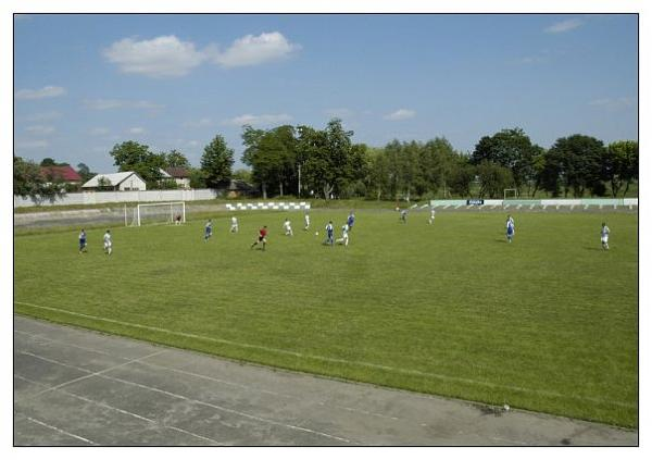 Yevhen Smuk Stadium in Yavoriv, Lviv Oblast, Ukraine